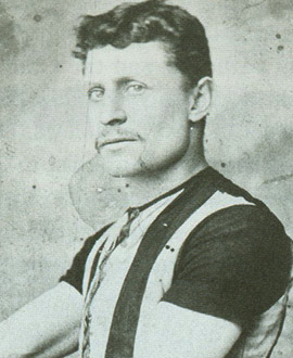 Photograph of Bill Strickland from 1893-1897.